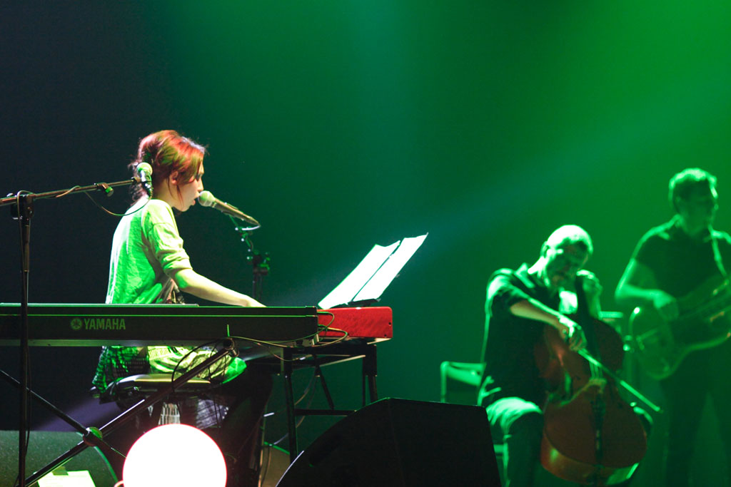 Nathalie at concert in Padua, Italy, on April 15, 2011